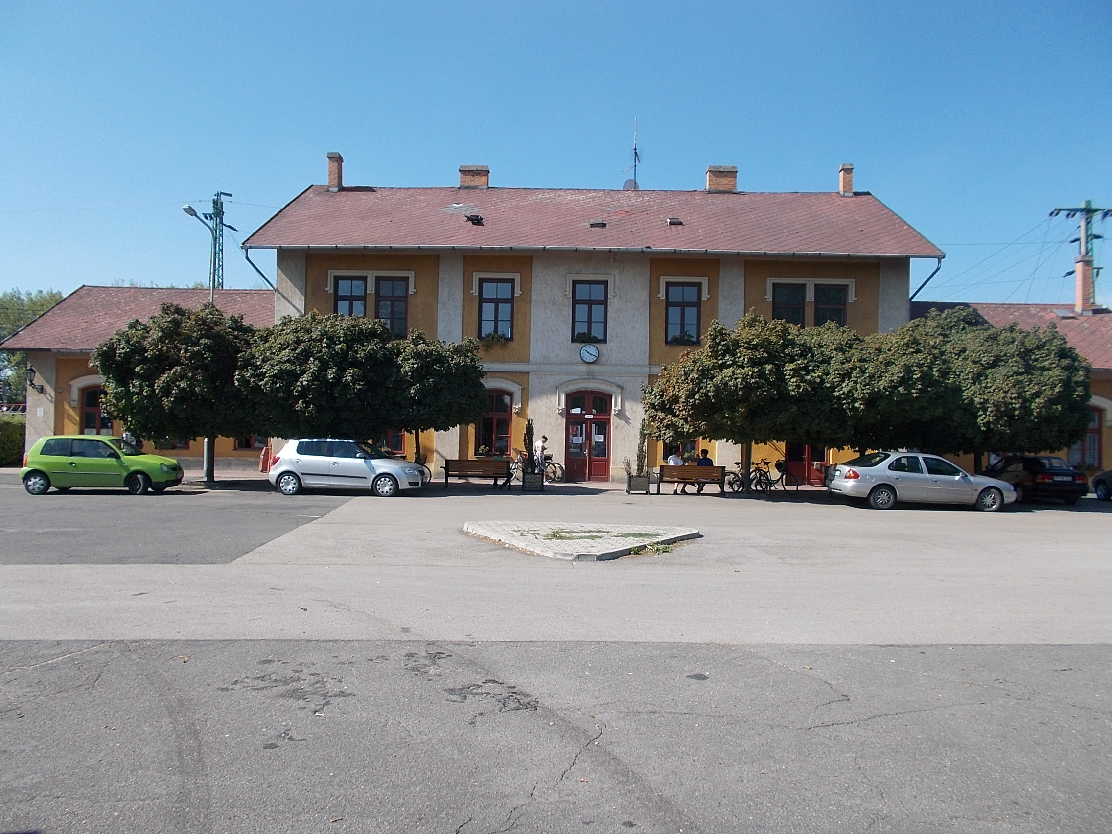 Mosonmagyaróvár railway station, streetside facade. - Moson neighborhood, Mosonmagyaróvár, Győr-Moson-Sopron County, Hungary.